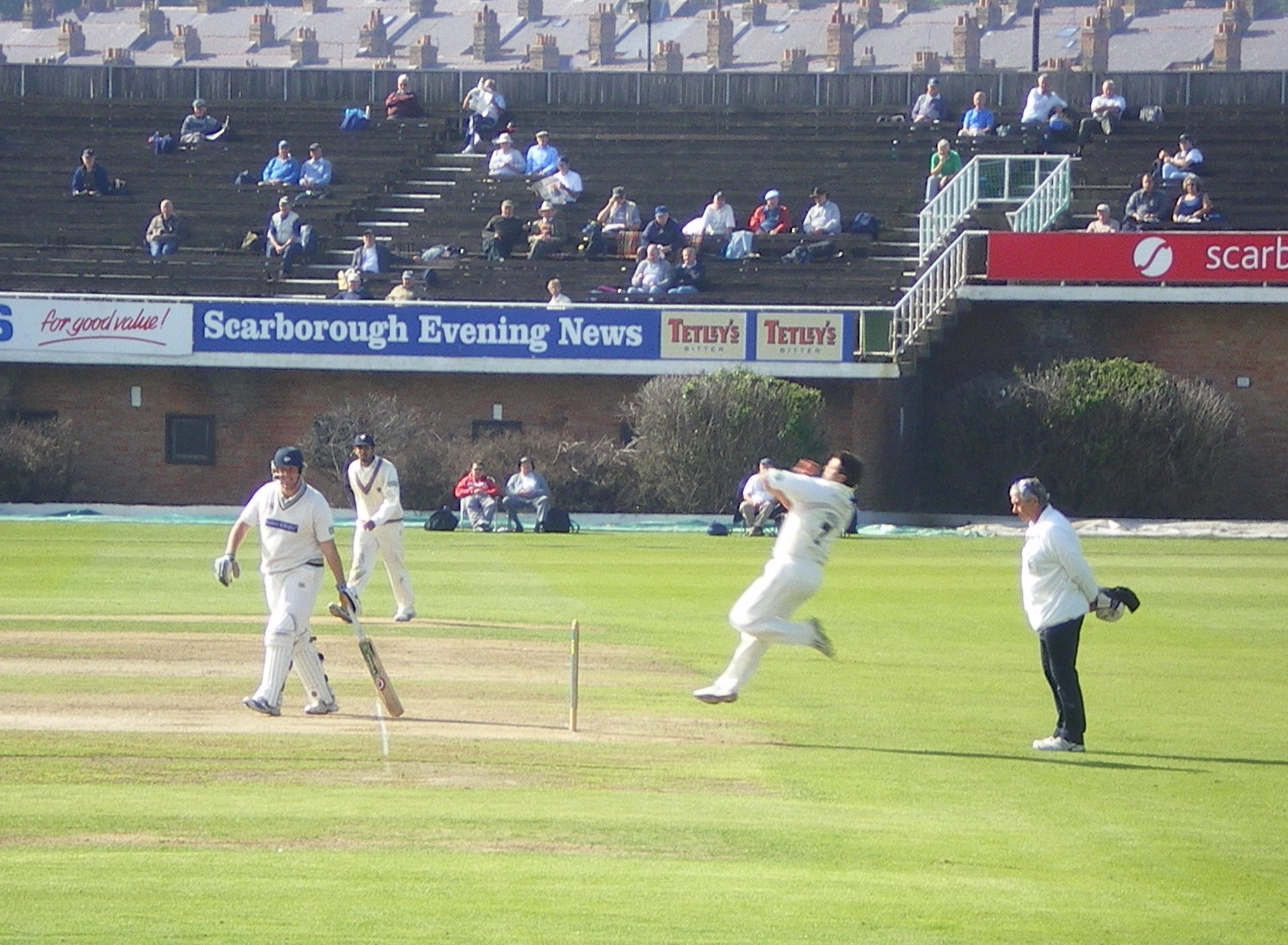 Peter Trego playing for Somerset CCC at North Marine Road, Scarborough